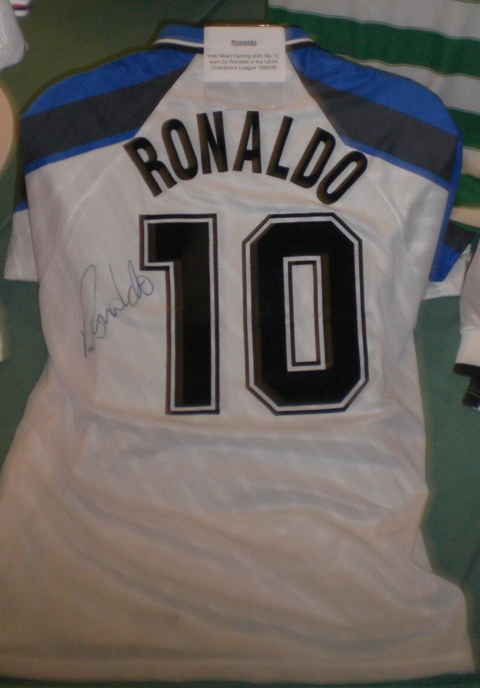 Inter Milan training shirt No. 10, worn by Ronaldo in th UEFA Champions League 1998/1999